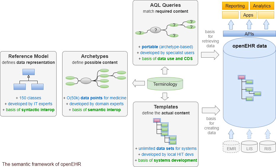 This diagrams shows the multi-level modelling basis of the openEHR platform for e-health. It can be used for any other domain, and primarily depends on ISO 13606-2, the Archetype formalism.